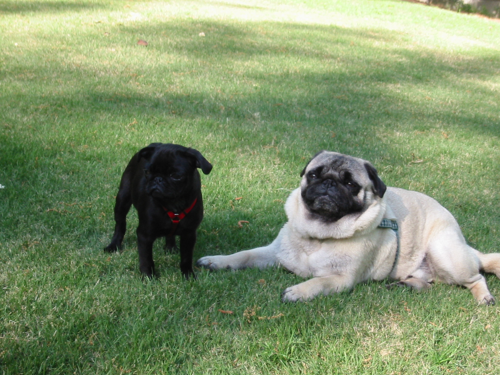 A black pug puppy next to an overweight adult pug.